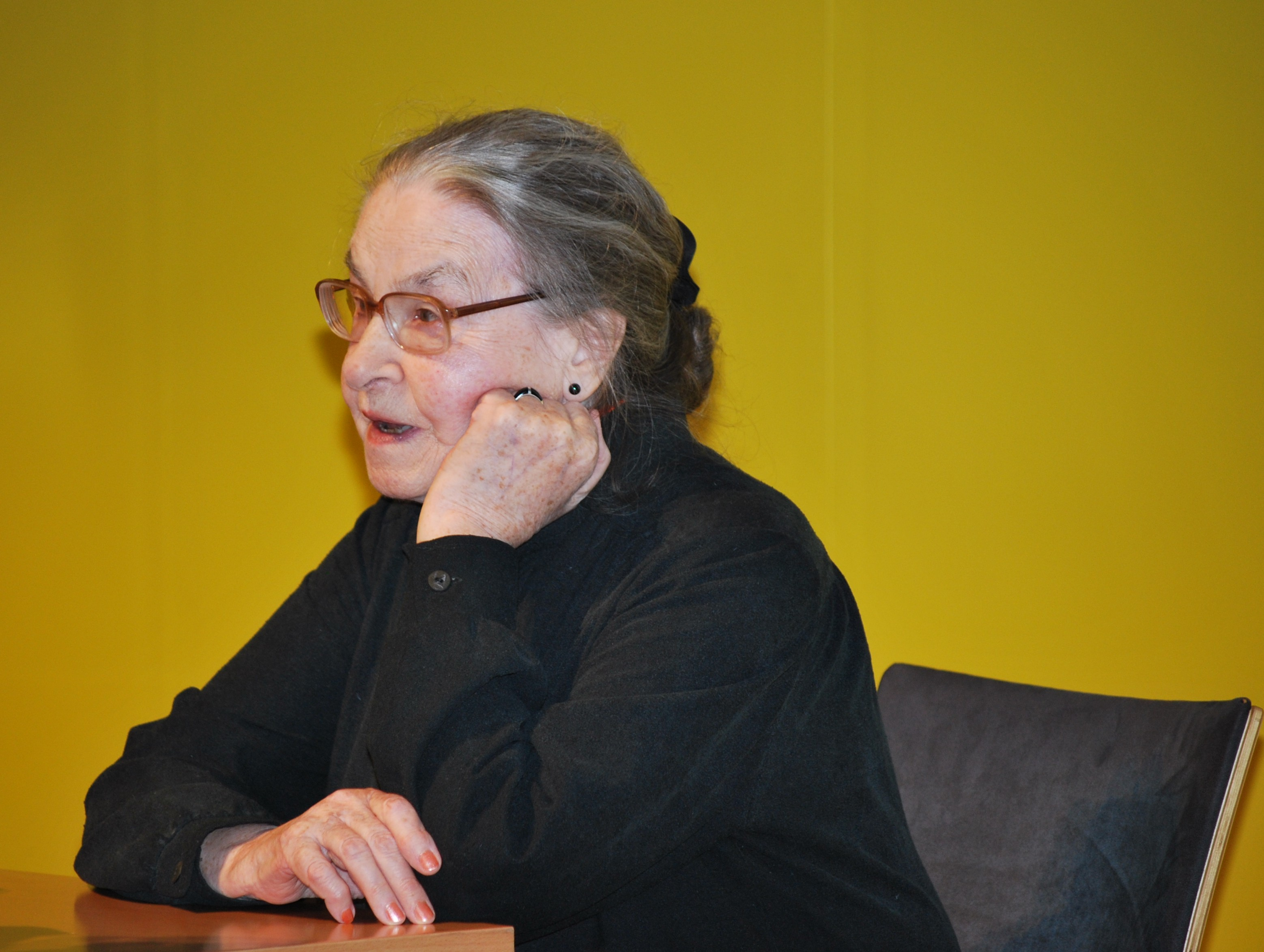 Kyllikki Villa, Finnish writer, Helsinki Book Fair 2008.